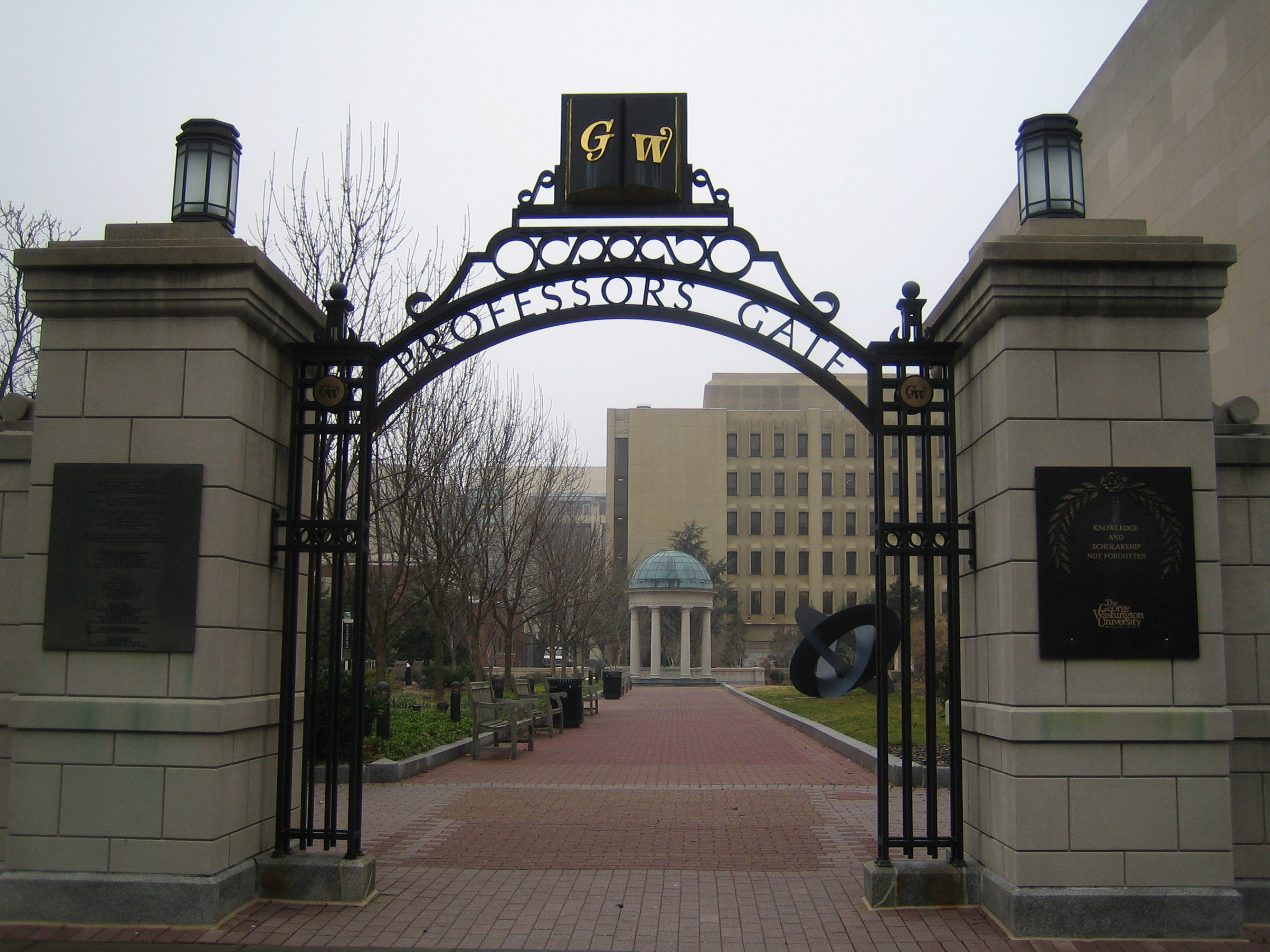 Professor's Gate at George Washington University